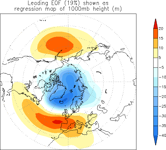 AO index, loading pattern by NOAA-CPC: the leading mode of Empirical Orthogonal Function (EOF) analysis of monthly mean 1000mb height during 1979-2000 period (details see Teleconnection Pattern Calculation Procedures: Arctic / Antarctic Oscillation (AO/AAO)); used to calculate Daily Arctic Oscillation Index.